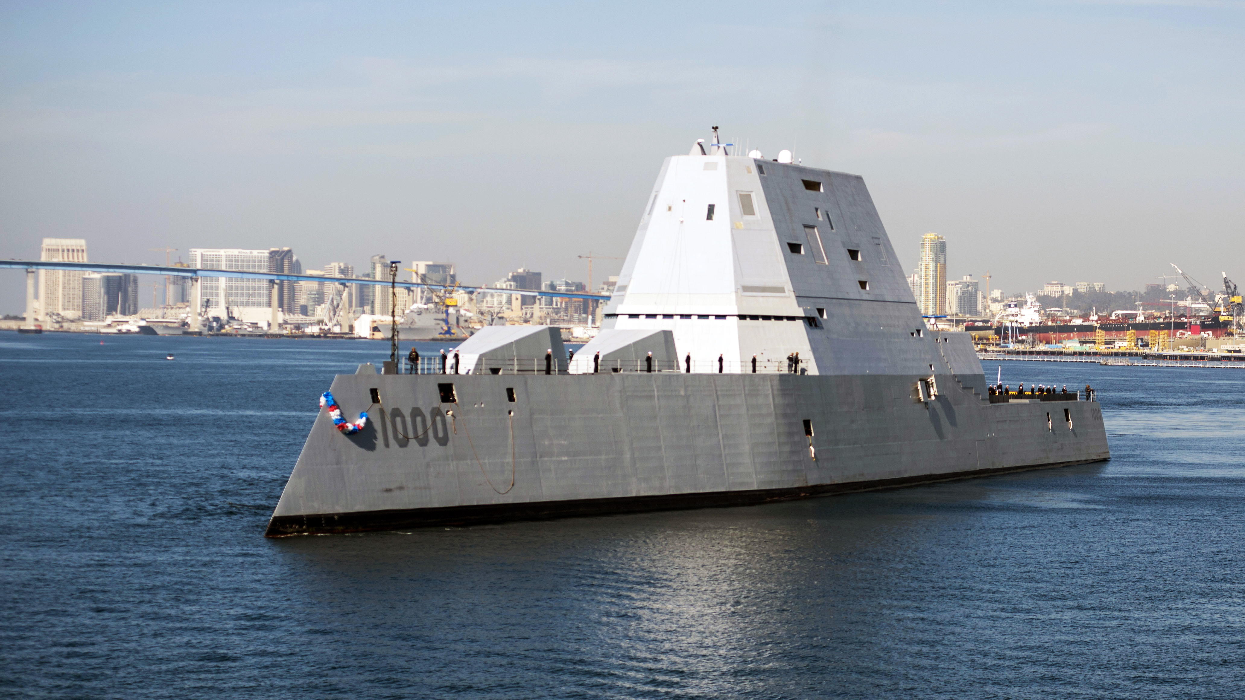 SAN DIEGO (Dec. 8, 2016) The guided-missile destroyer USS Zumwalt (DDG 1000) arrives at its new homeport in San Diego. Zumwalt, the Navy's most technologically advanced surface ship, will now begin installation of combat systems, testing and evaluation and operation integration with the fleet. (U.S. Navy photo by Petty Officer 3rd Class Emiline L. M. Senn/Released)161208-N-OR184-0044 Join the conversation: navylive.dodlive.mil